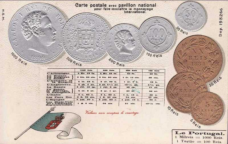 A numismatic postcard showcasing the coins that circulated at the time.